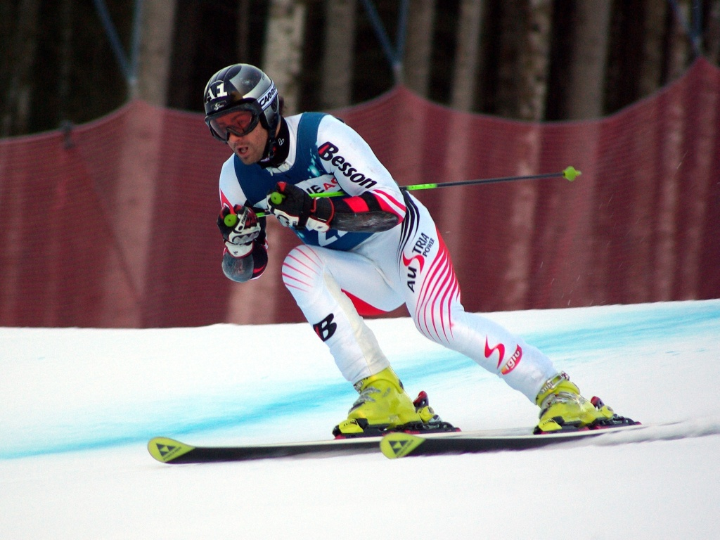 Austrian alpine skier Stephan Görgl during the European Cup Giant Slalom in Hinterstoder, Austria on January 11, 2008.